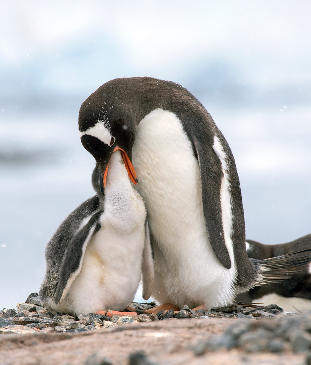 Journey to remote Antarctica aboard the Sea Adventurer